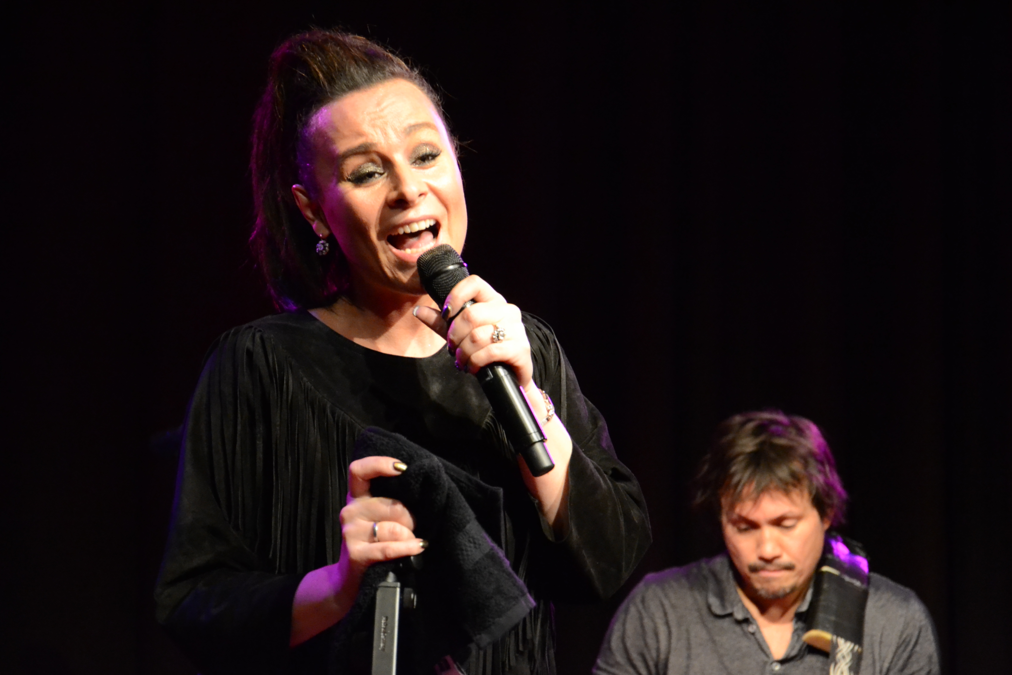 Singer Trijntje Oosterhuis , performing in the radio broadcast "Tros Muziekcafé", from Studio Plantage, Amsterdam, The Netherlands.